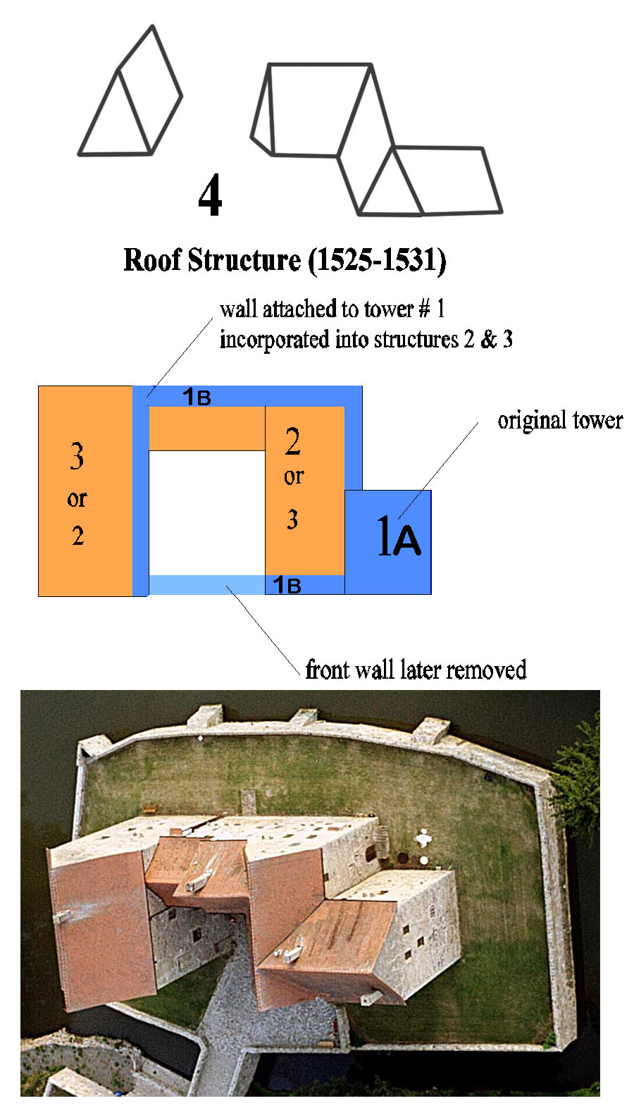 Brennhausen graphic showing order of construction